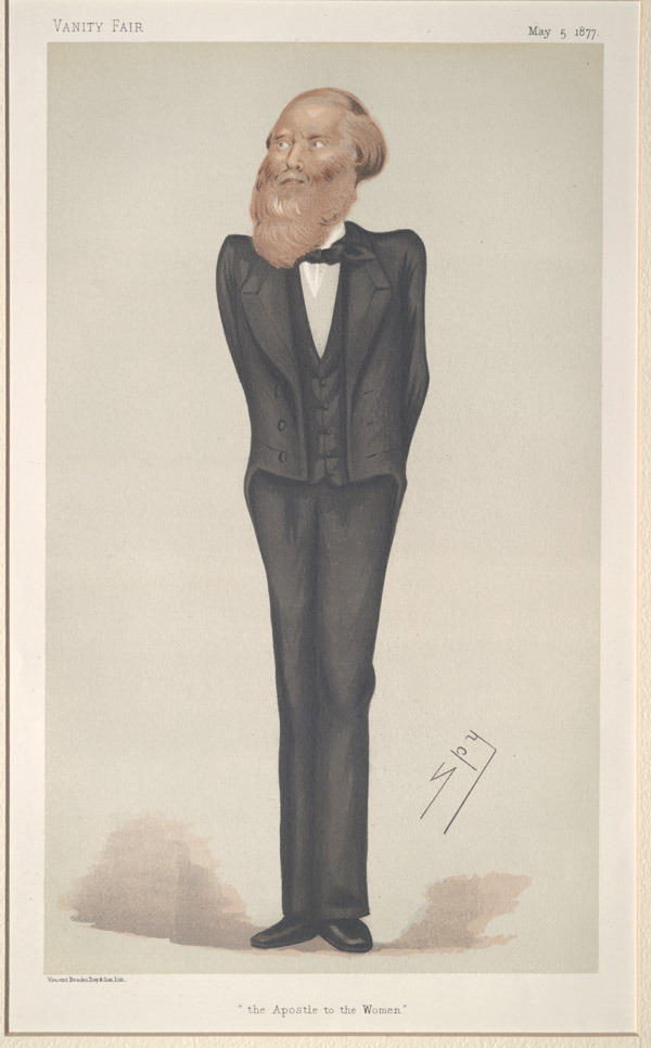 Statesmen No.251: Caricature of Mr Jacob Bright MP. Caption reads: "the Apostle to the Women"